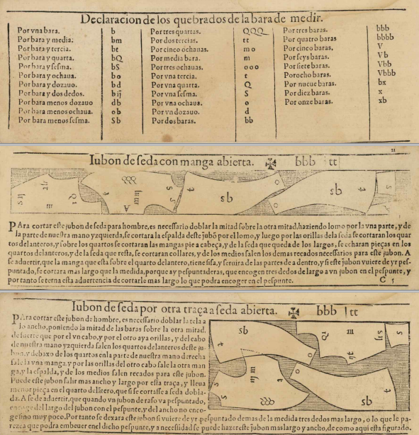 Some pages of Libro de Geometria, Pratica, y Traça (1580) by Juan de Alcega